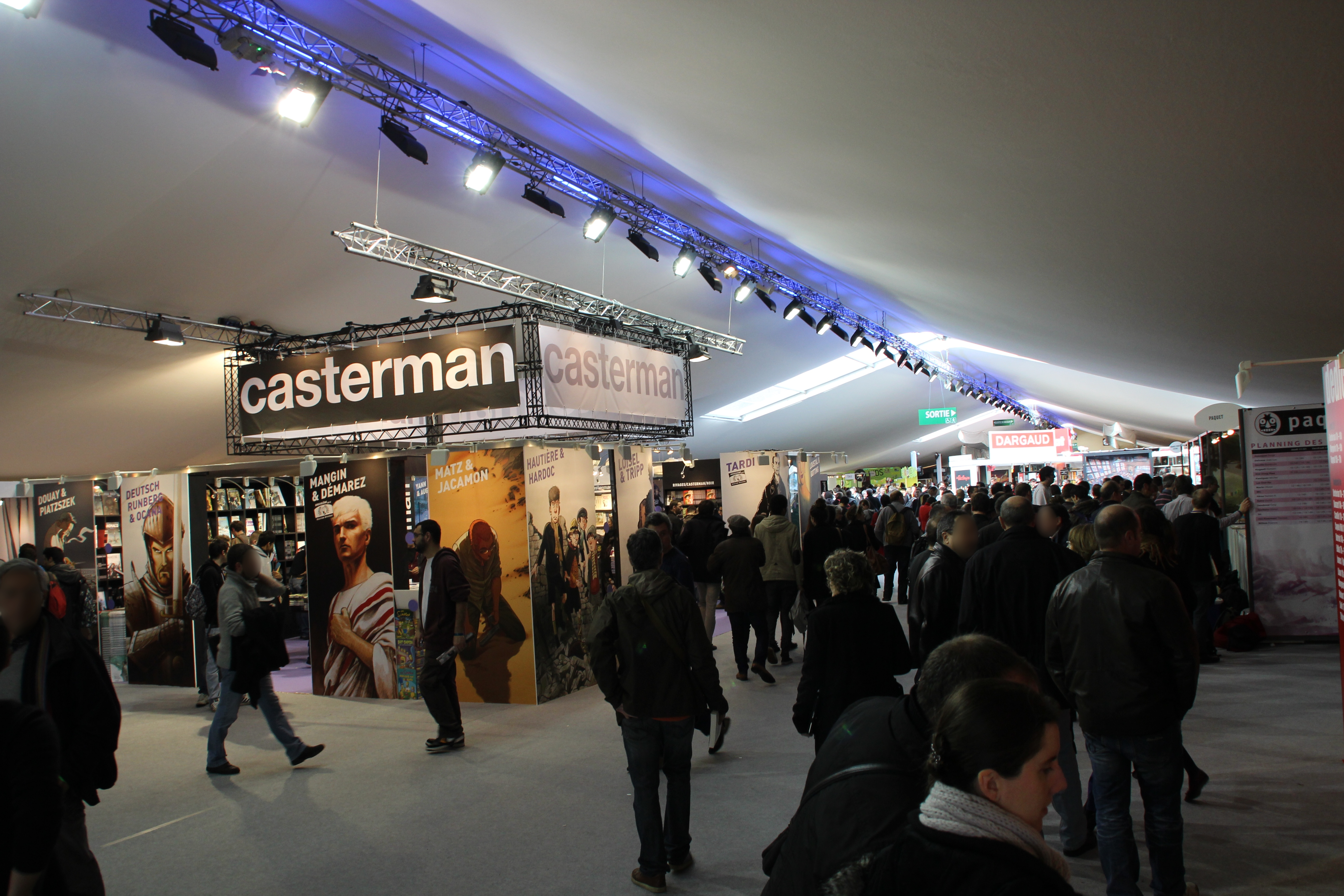 Angoulême International Comics Festival 2013.